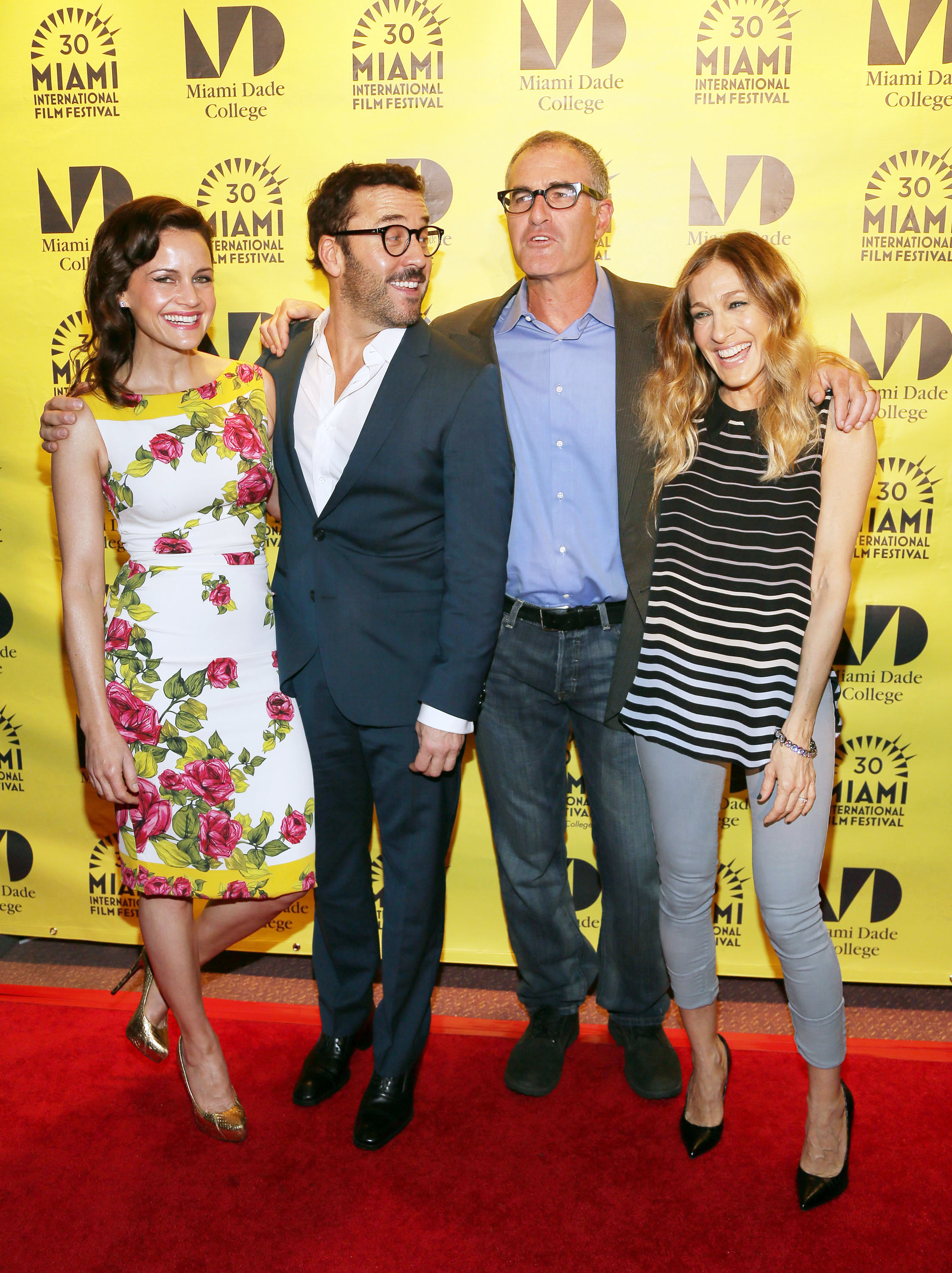 MIAMI, FL - FEBRUARY 08: (L-R) Carla Gugino, Jeremy Piven, David Frankel, and Sarah Jessica Parker arrive at Miami Rhapsody 30th Anniversary Celebration presented by Miami International Film Festival on February 8, 2013 in Miami, Florida.